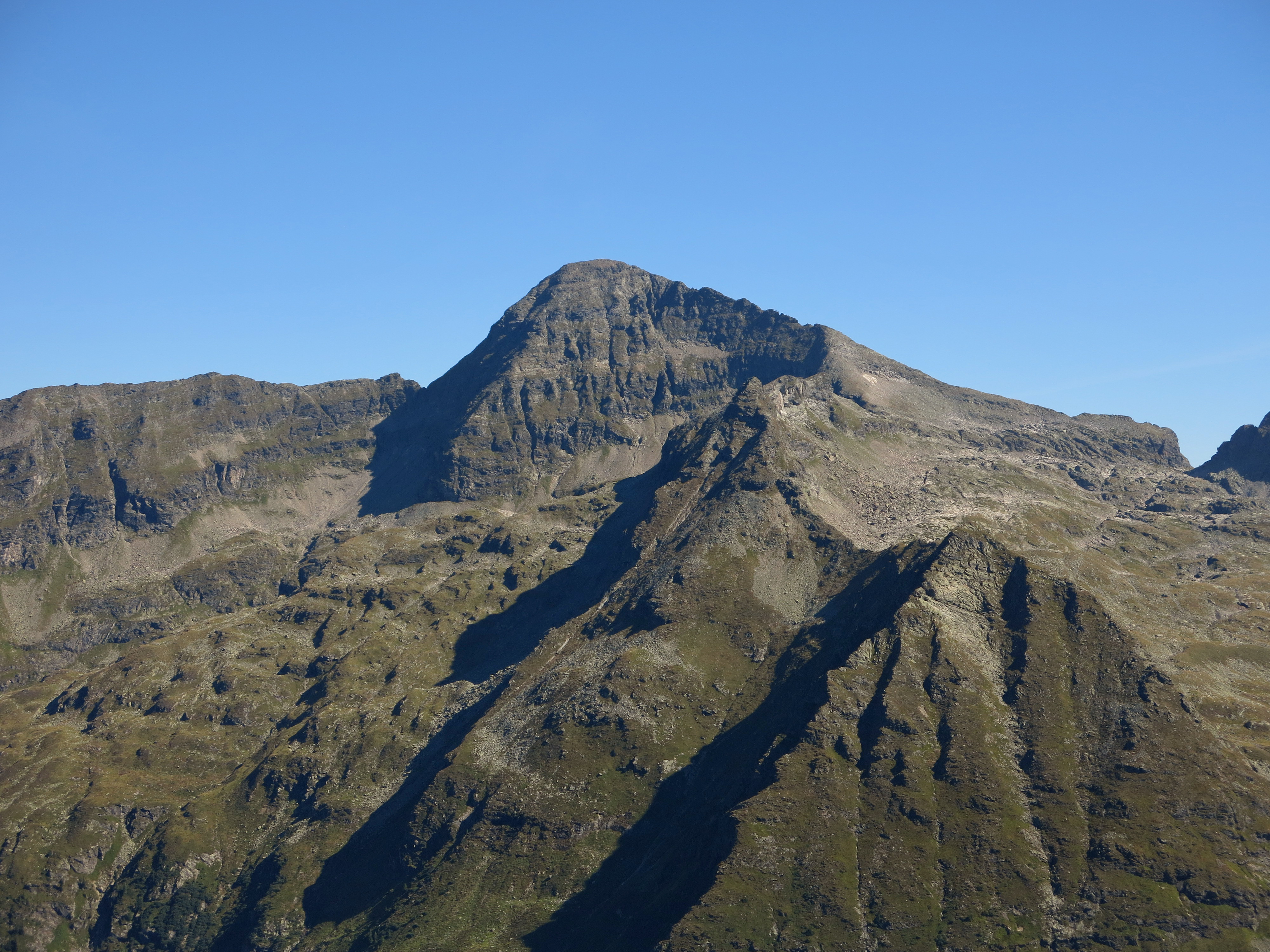 Hochwildestelle (2747 m) in the Schladming Tauern seen from SW (Klafferscharte)